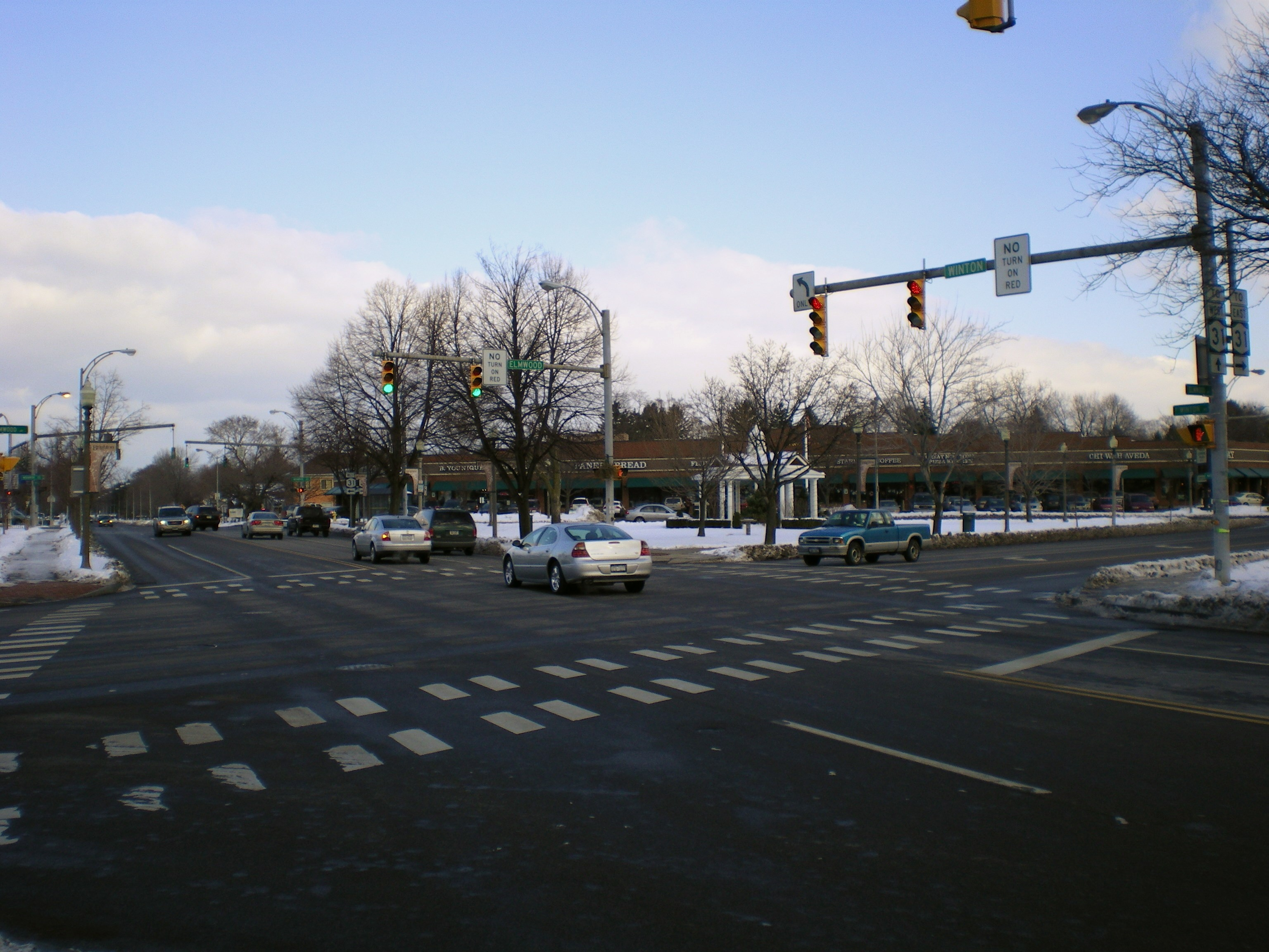 A view of (most of) Twelve Corners in Brighton, New York from the southwest corner of the Elmwood Avenue/Winton Road intersection.